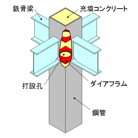 Concrete Filled Steel Tubular Structure